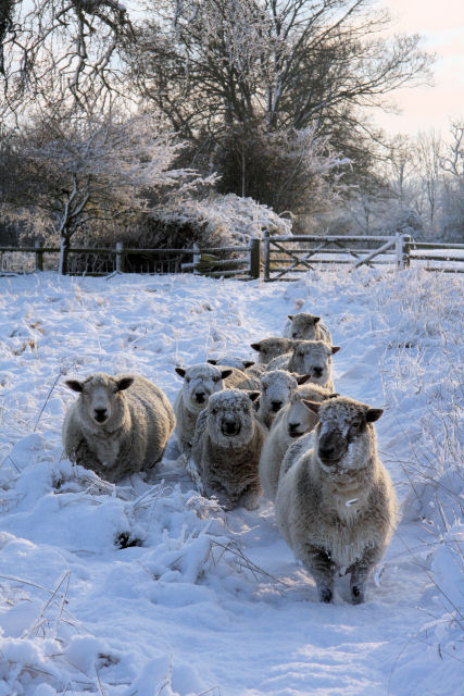 Waiting for breakfast. This small flock of Ryeland sheep, in a snow-covered field at Little Saxham, expectantly await their morning feed.